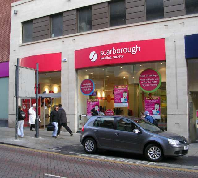 Scarborough Building Society - 90/92 Albion Street